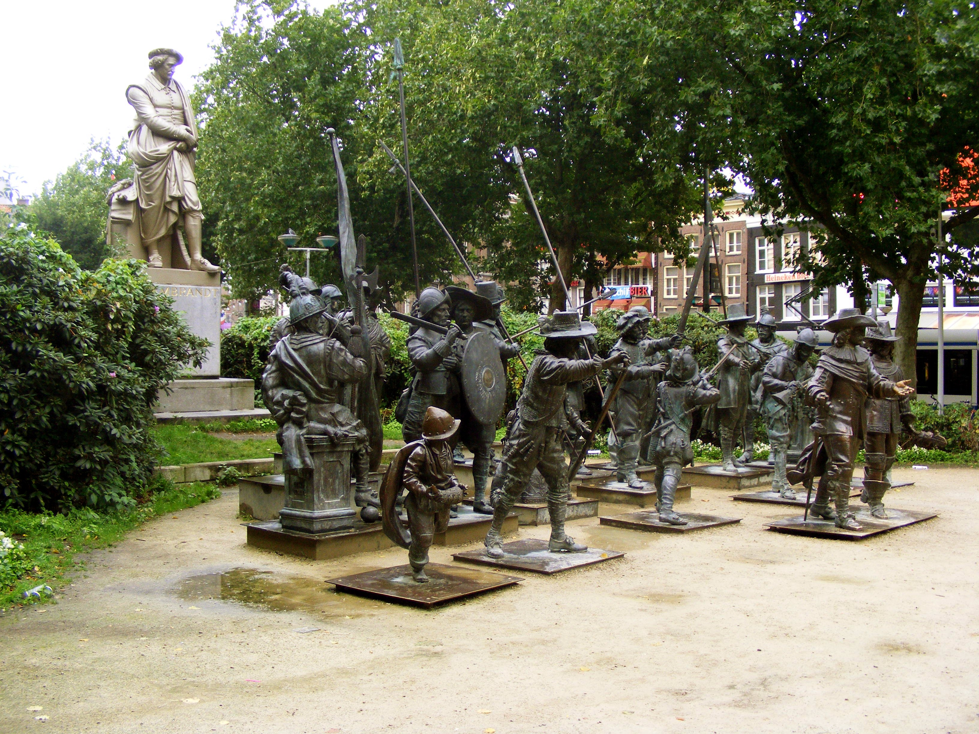 Statue of Night watch on Rembrandt square, Amsterdam